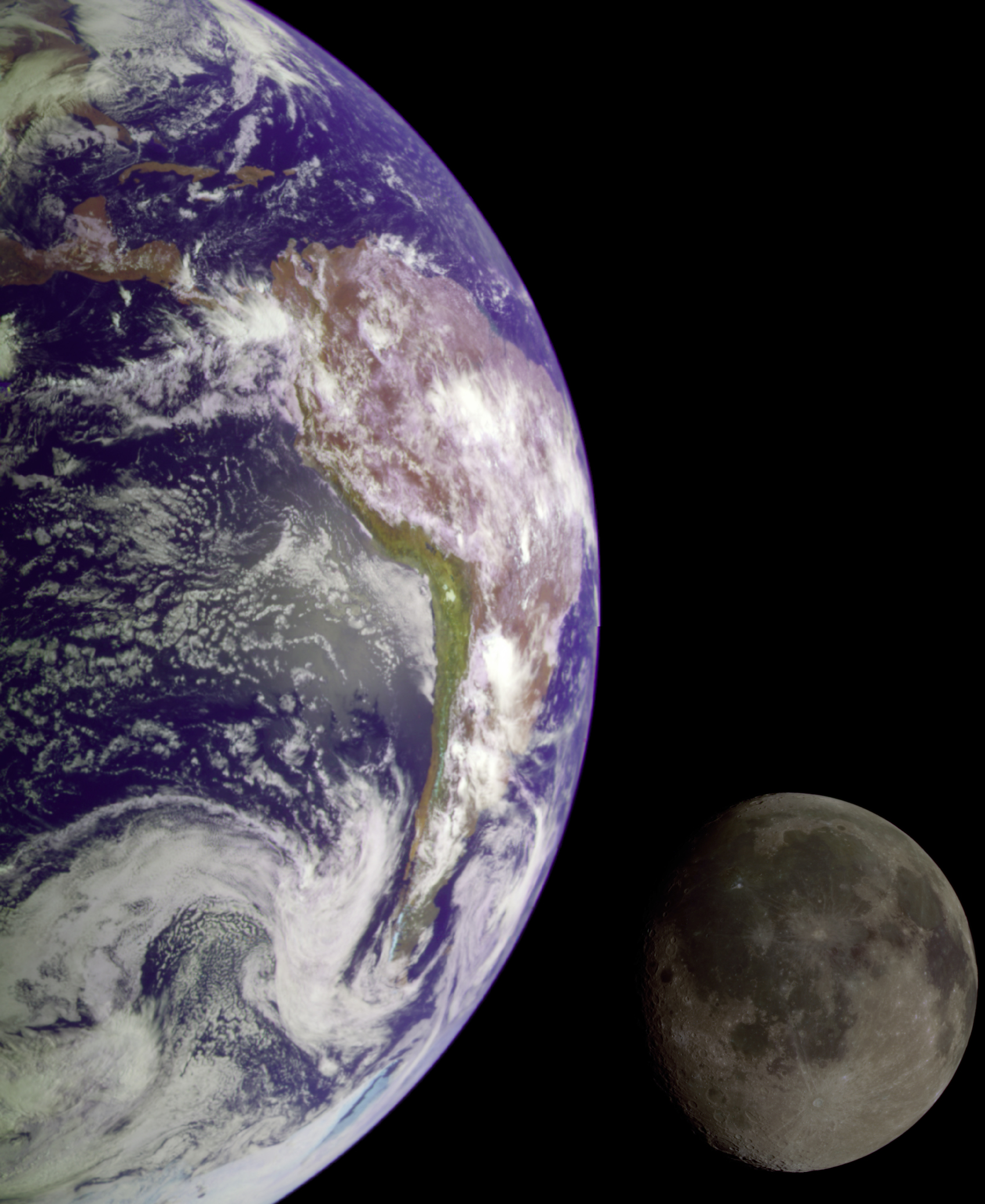 During its flight, the Galileo spacecraft returned images of the Earth and Moon. Separate images of the Earth and Moon were combined to generate this view. The Galileo spacecraft took the images in 1992 on its way to explore the Jupiter system in 1995-97. The image shows a partial view of the Earth centered on the Pacific Ocean about latitude 20 degrees south. The west coast of South America can be observed as well as the Caribbean; swirling white cloud patterns indicate storms in the southeast Pacific. The distinct bright ray crater at the bottom of the Moon is the Tycho impact basin. The lunar dark areas are lava rock filled impact basins. This picture contains same scale and relative color/albedo images of the Earth and Moon. False colors via use of the 1-micron filter as red, 727-nm filter as green, and violet filter as blue. The Galileo project is managed for NASA's Office of Space Science by the Jet Propulsion Laboratory.